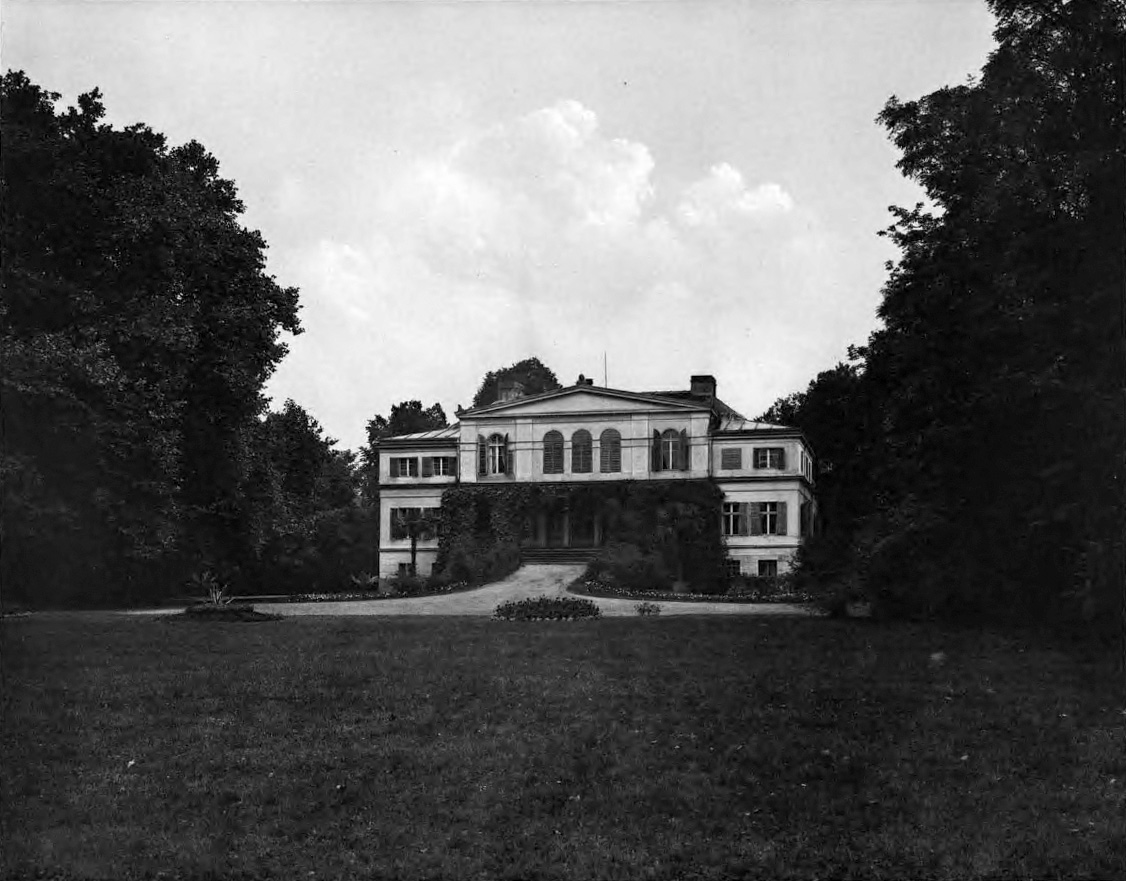 Rogów Legnicki Palace